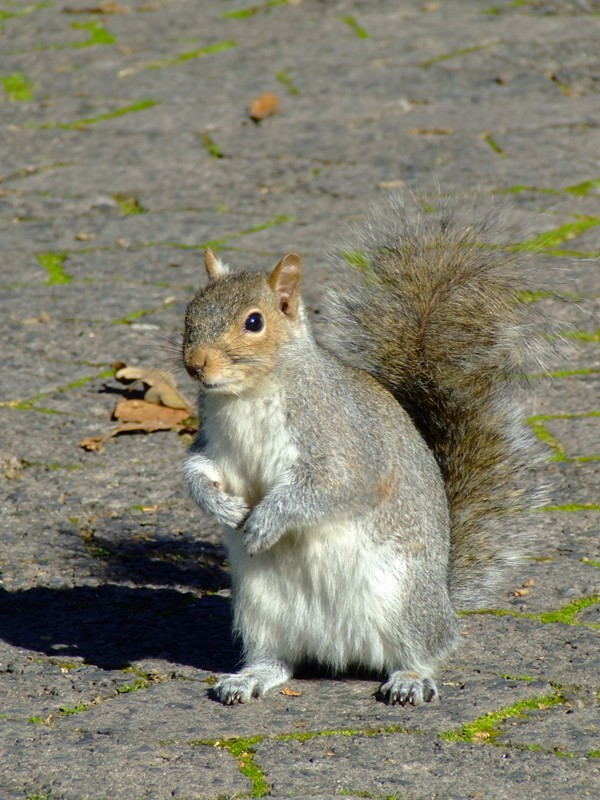 A well fed squirrel in Company Gardens